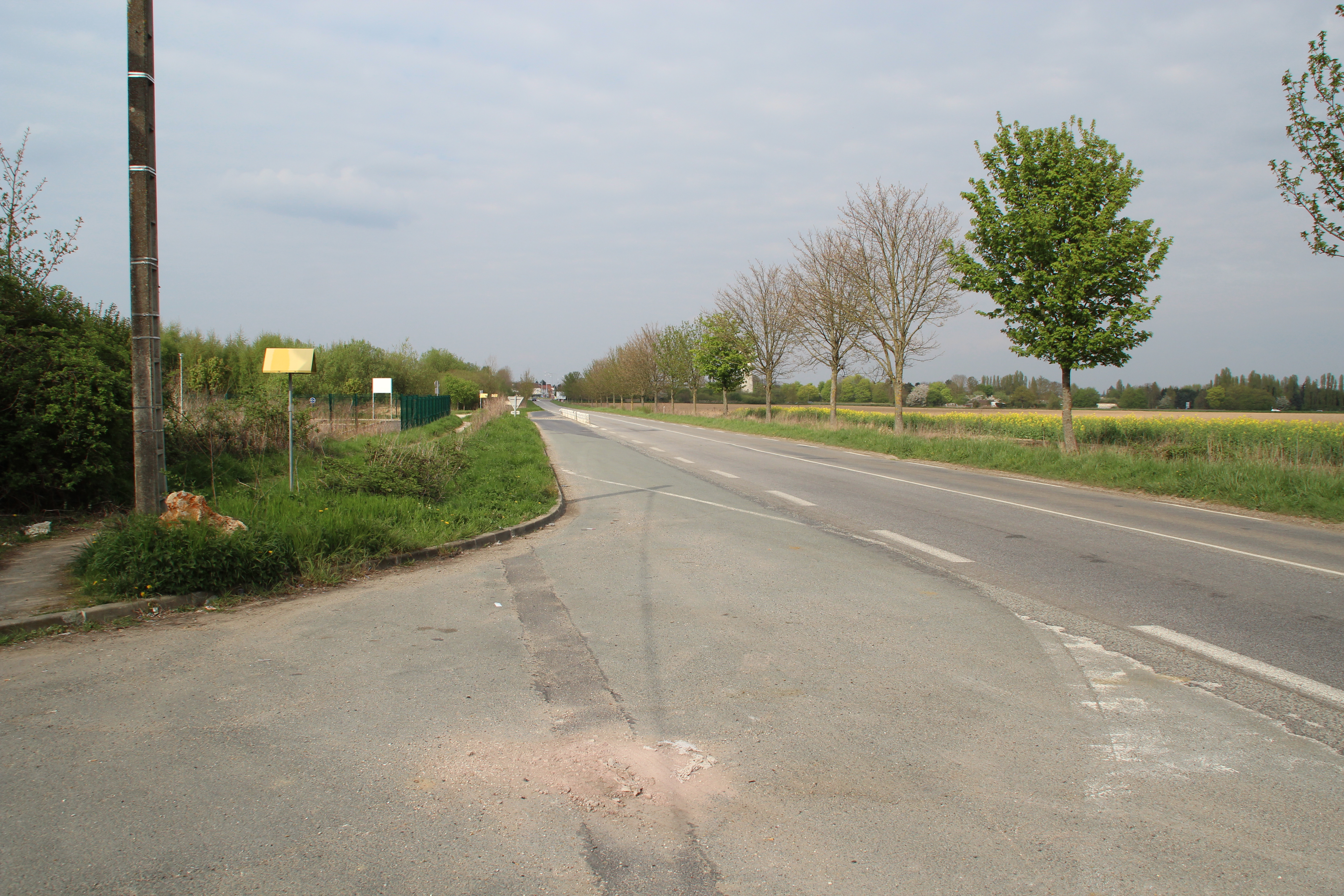 County road 306 in Saclay, France.